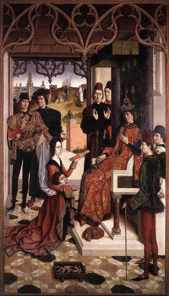 Justice panel:The Ordeal by Fire